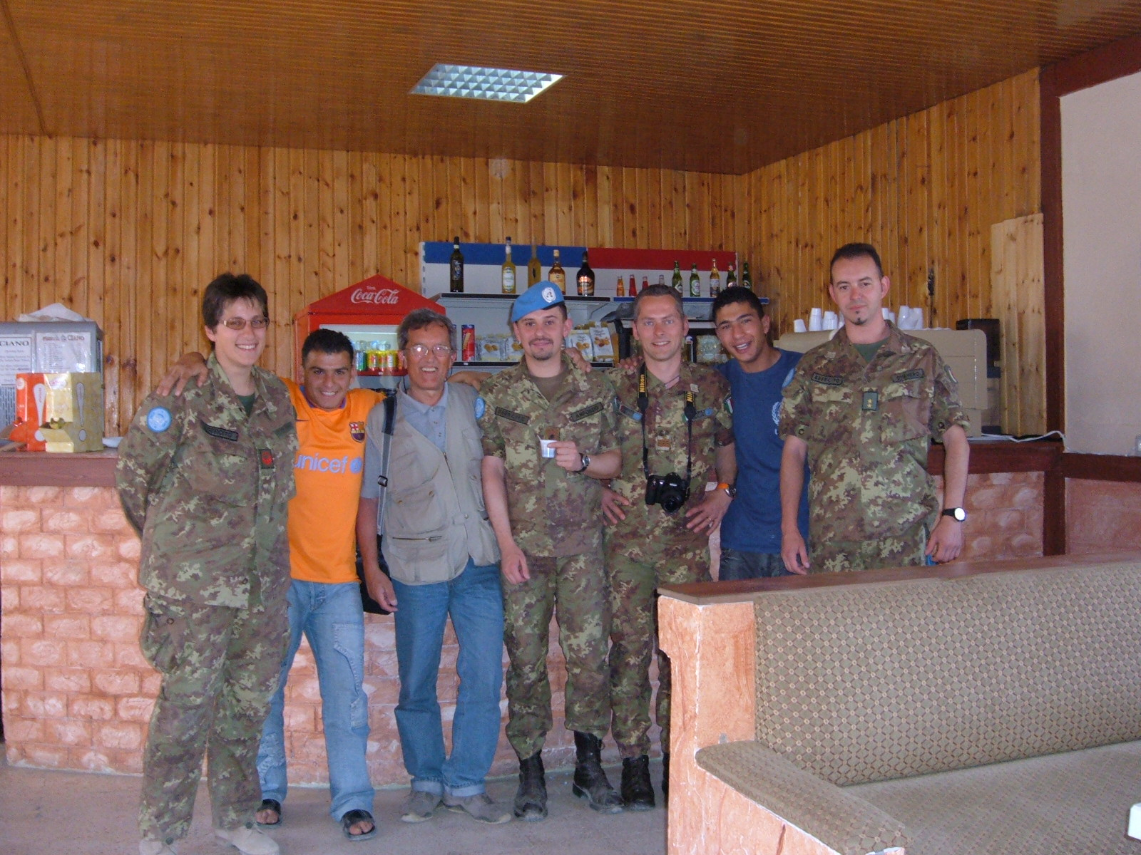 C.I.S.S. humanitarian staff with some italian UNIFIL soldiers in Lebanon. This photo is part of a reportage made in Lebanon for Wikinews